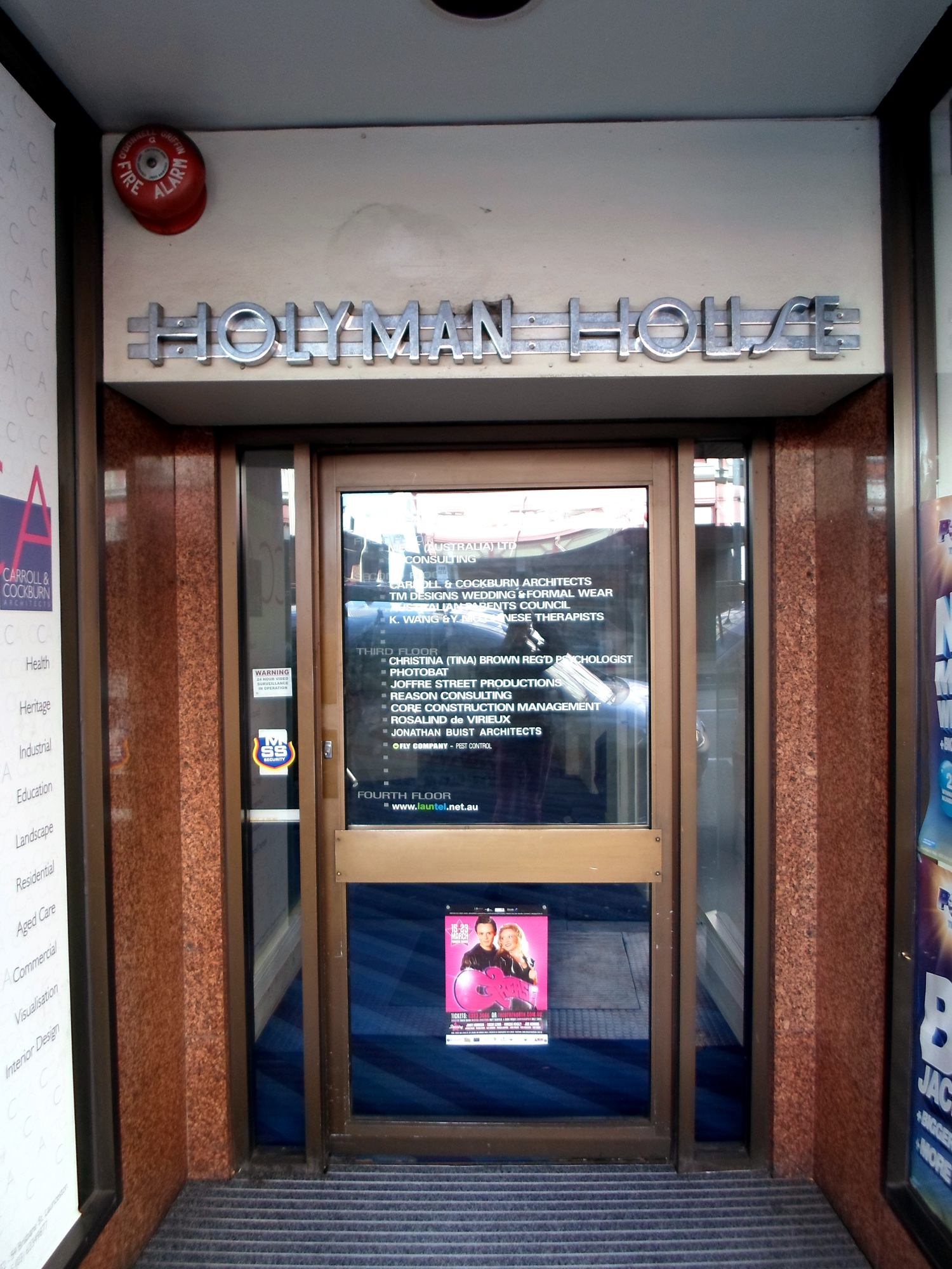 Ground level entry to Holyman House in Launceston